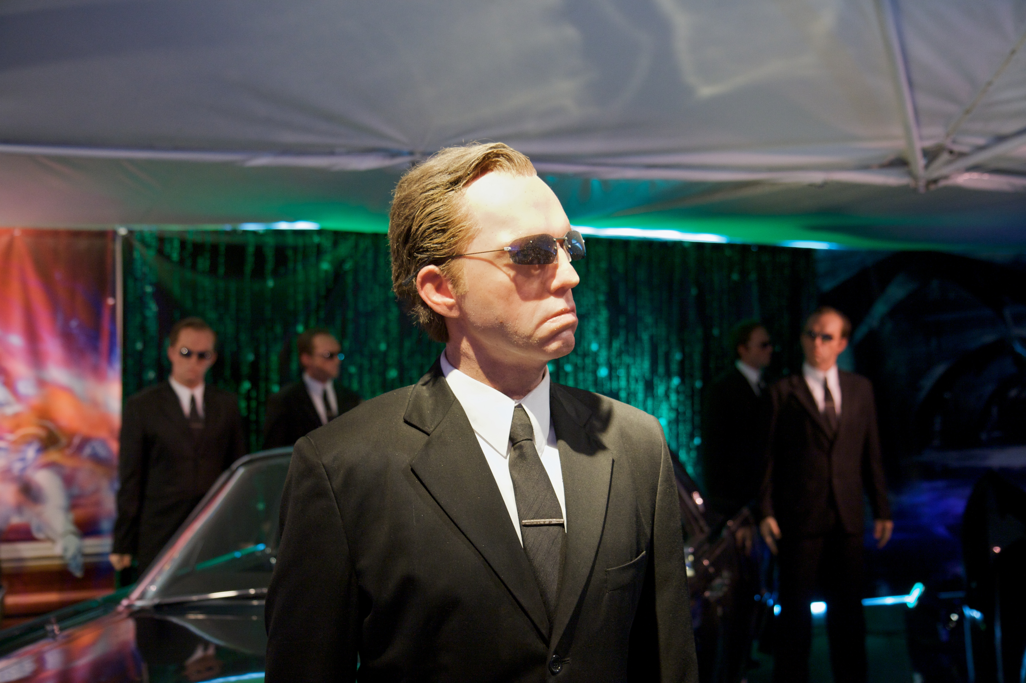 Some of the many Mr. Smith mannequins used in the sequel for The Matrix.